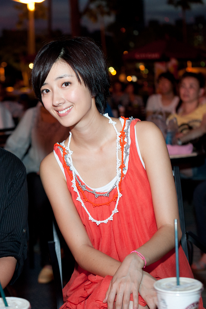 Kwai Lun-mei, in 2010.